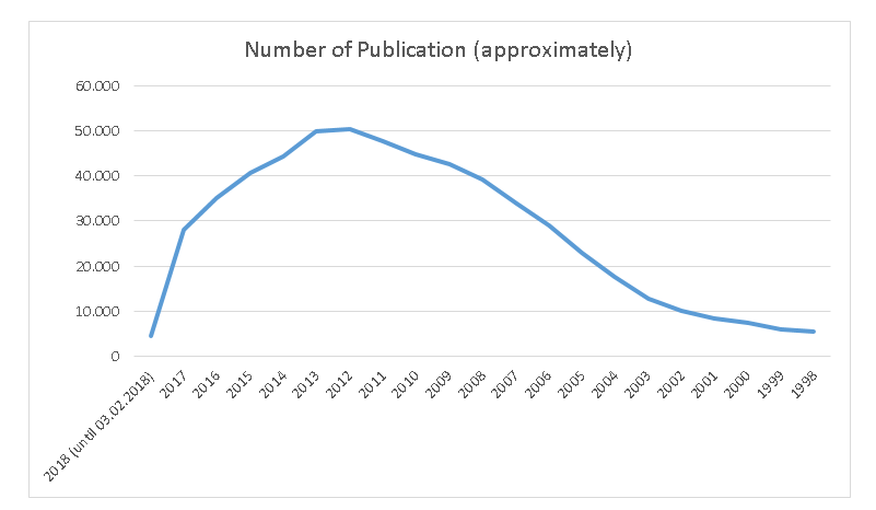 Statistics of RNAi publications in Google Scholar (When “RNAi” typed to search bar of Google Scholar, these results are gained).